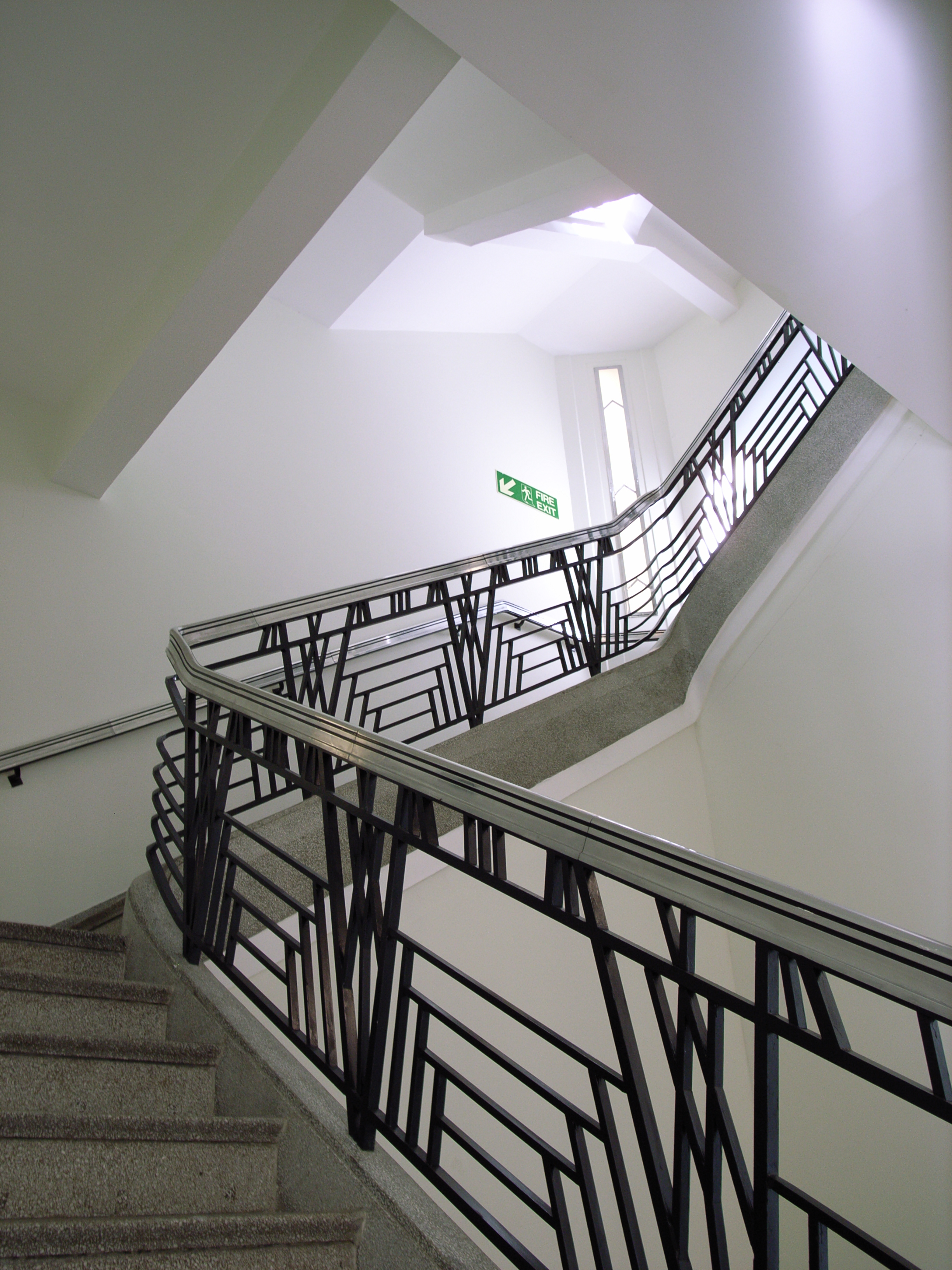 The Hoover Building (1931-1935) by Wallis Gilbert and Partners, Western Avenue, London.